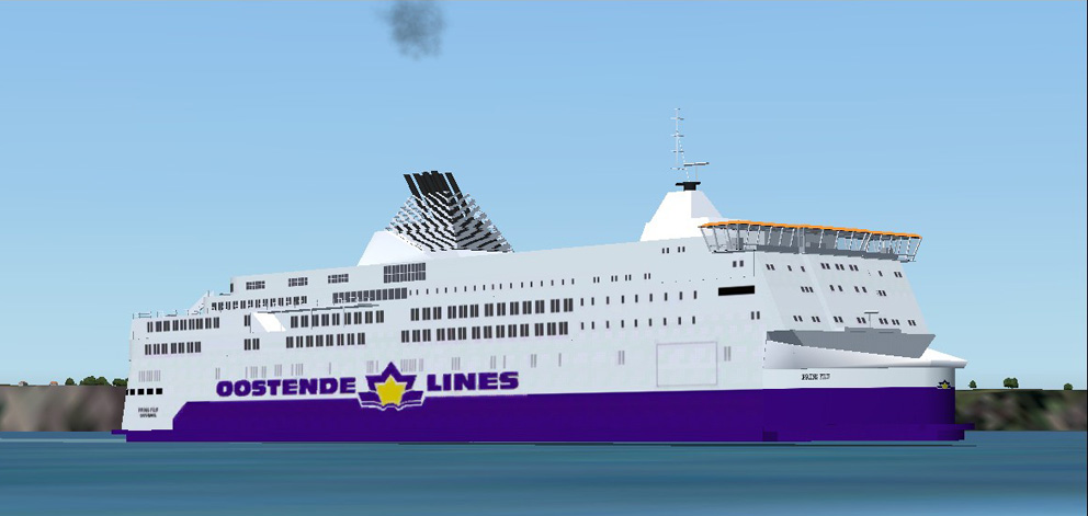 Prins Filip Simulator for Microsoft Flight Simulator 2004